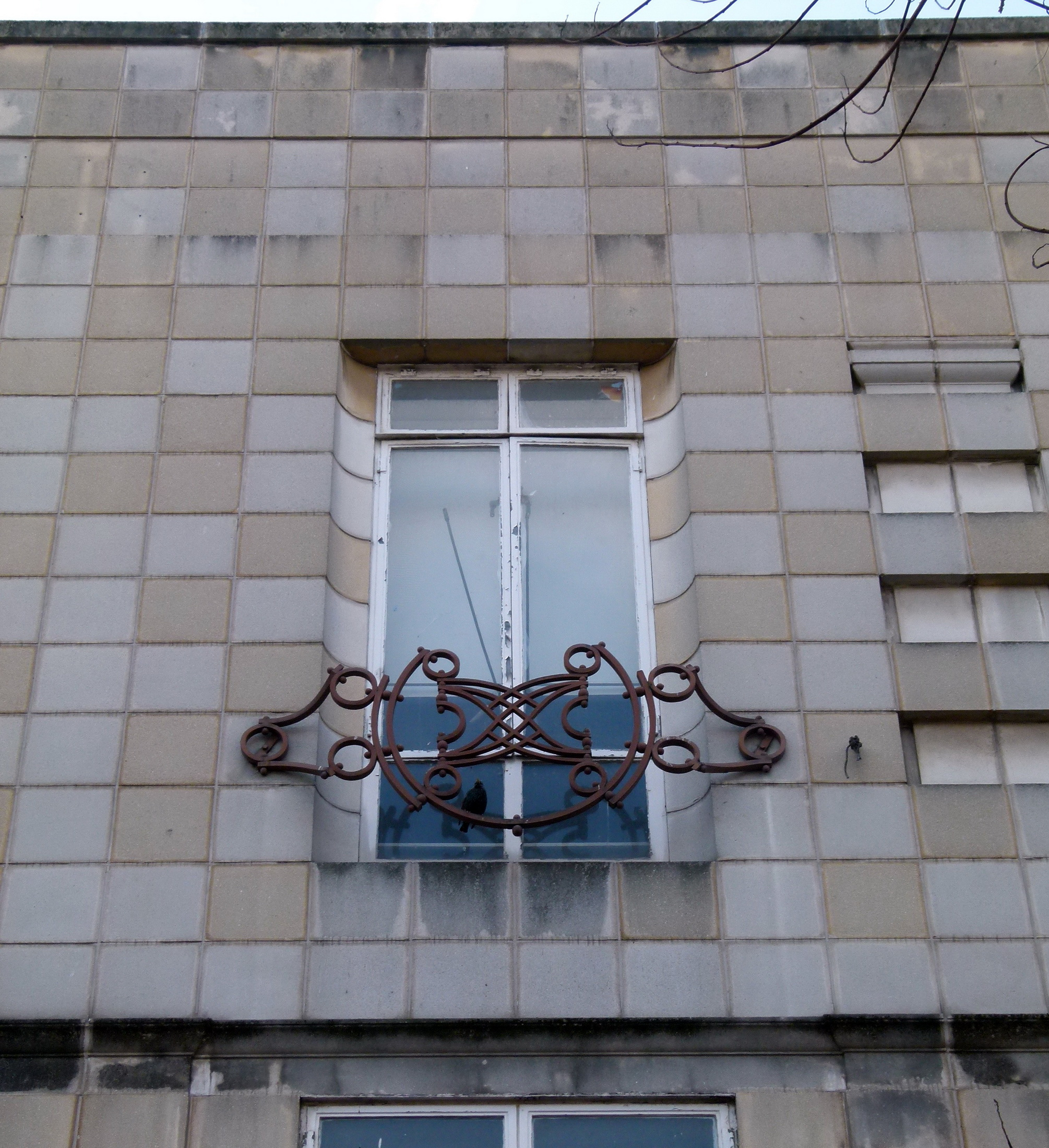 Detail of the former Marks & Spencer store, Powis Street nos 55-69, Woolwich, South East London, UK.